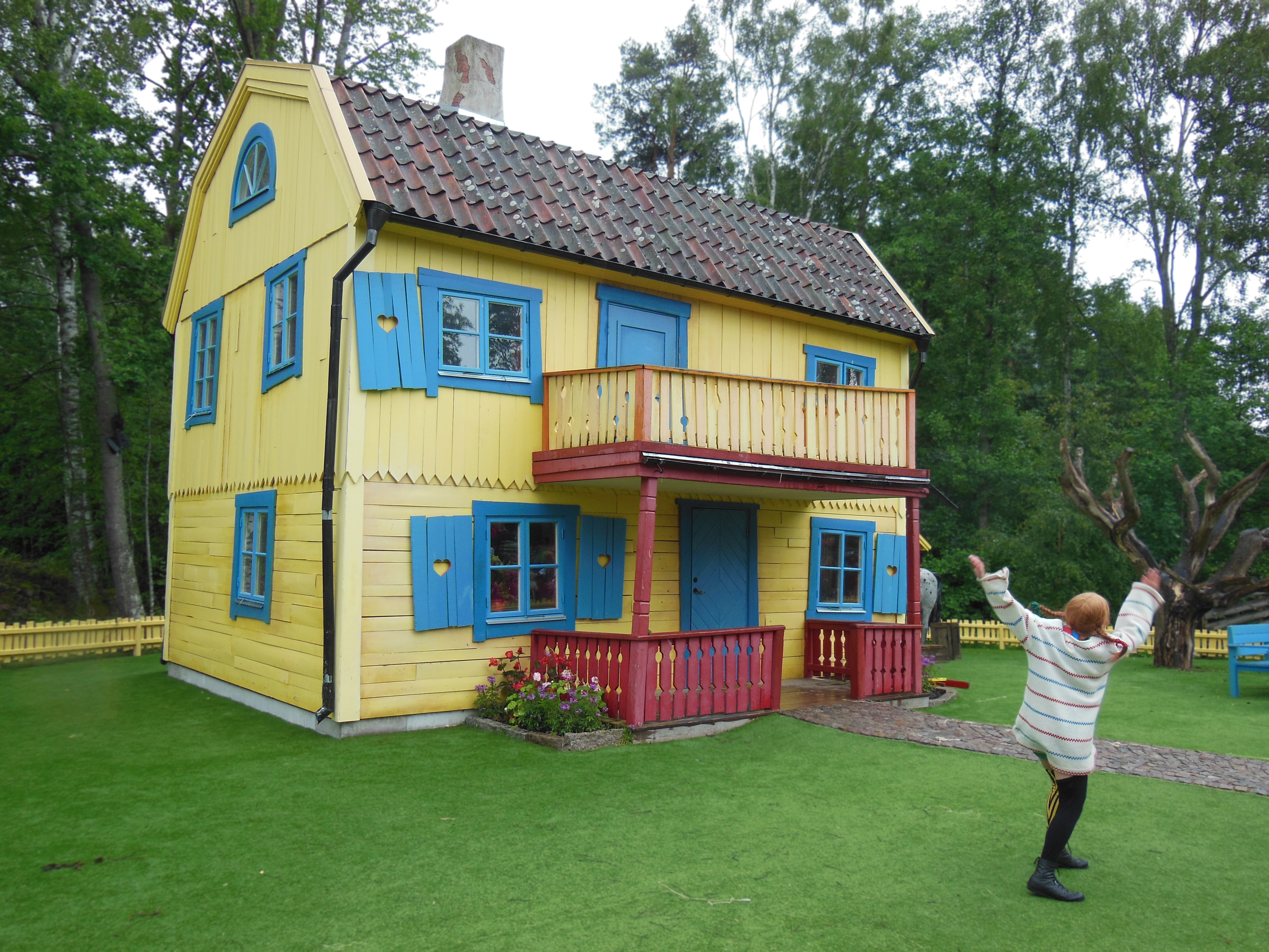 Pippi Longstocking and Villa Villekulla at Astrid Lindgrens Värld, Vimmerby 2014.